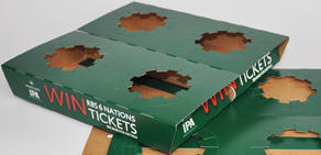 Carrbar™ P4CK